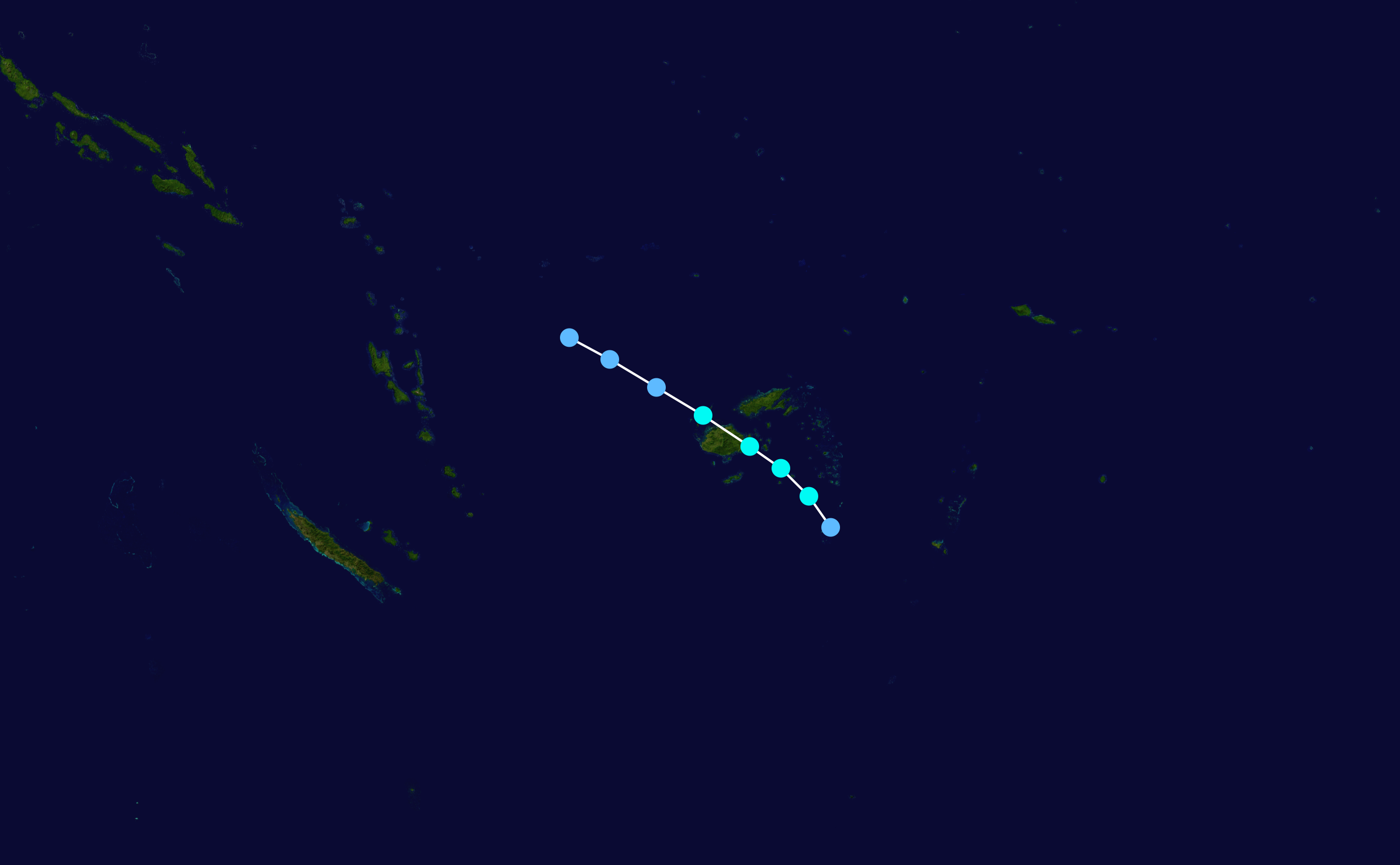 Tropical Depression 22P track. Uses the color scheme from the Saffir-Simpson Hurricane Scale.